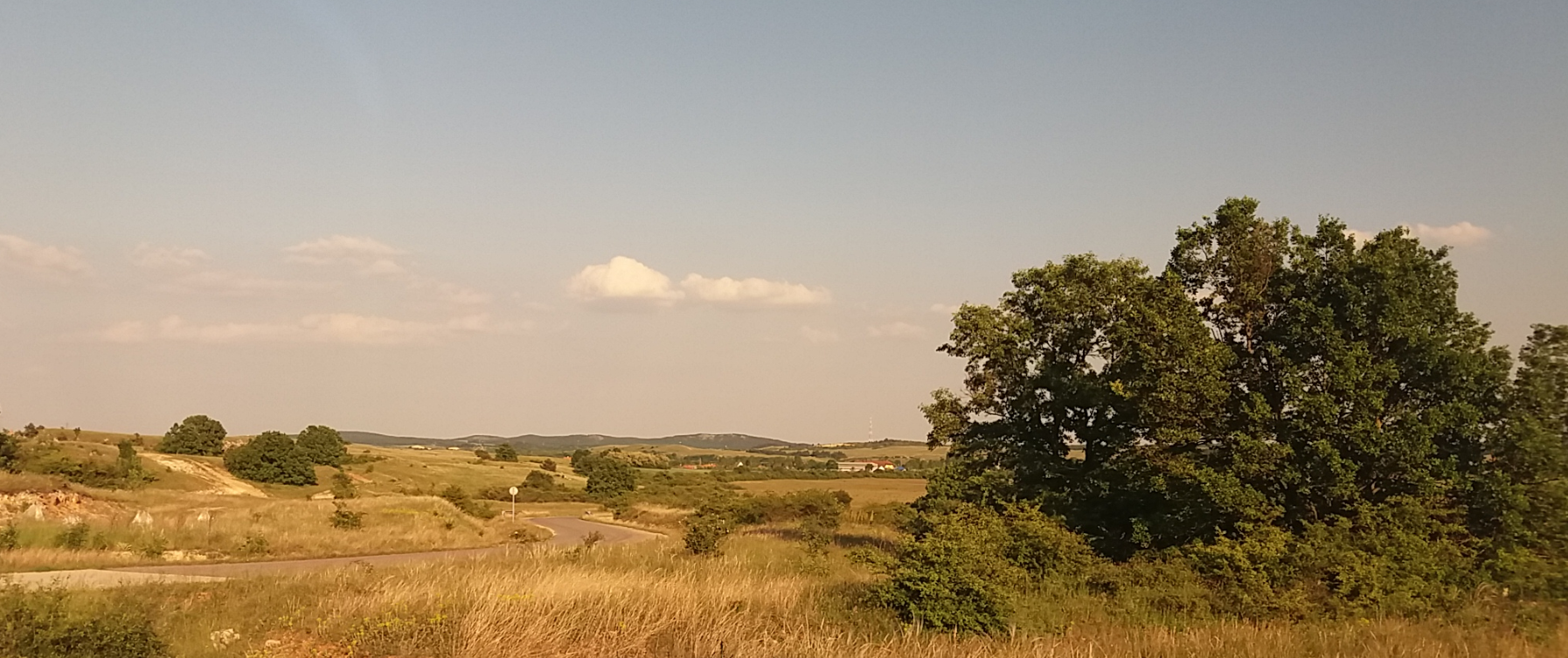 Photo made in Bakony, Veszprém, 2016.